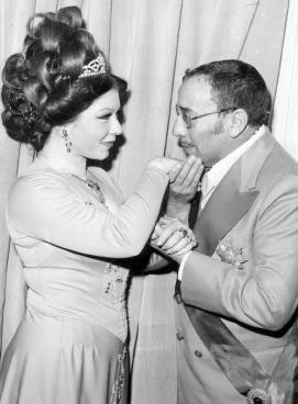 picture for the egyptian actress Shwikar with her late husband comedian actor Fouad el-Mohandes.in 1963.